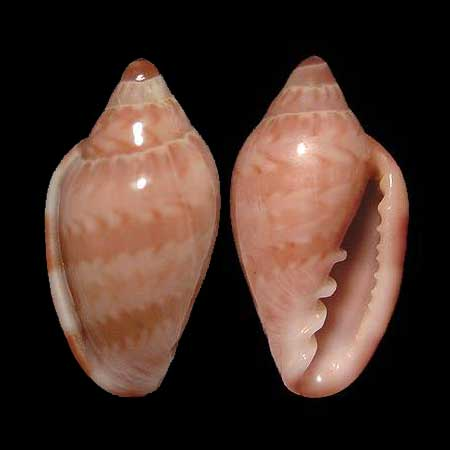 Species: Marginella cloveri Rios & Mathews, 1972 Distribution: Surinam to Brazil Specimen: Luis Ferreira collection data: scuba at 20-25m, under rocks Barra, Salvador. Brazil L 11,2mm